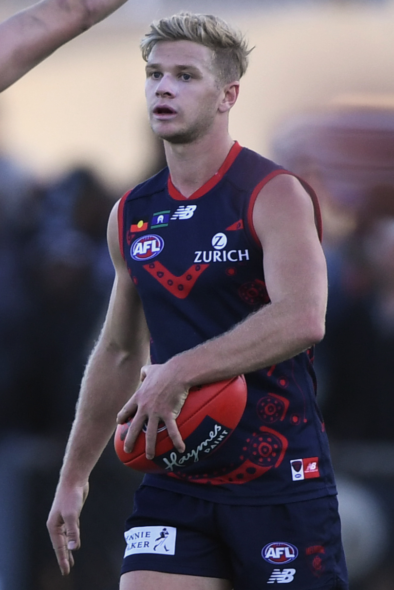 Corey Wagner of Melbourne during the 2019 AFL round 18 match between Melbourne and West Coast at Traeger Park on Sunday, 21 July 2019 in Alice Springs, Northern Territory.